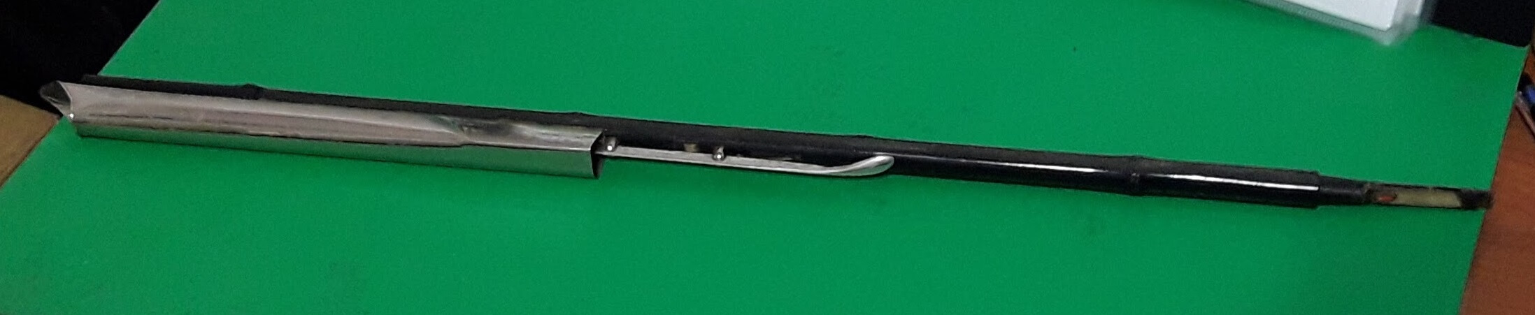 A pipe of 36-keyed sheng.